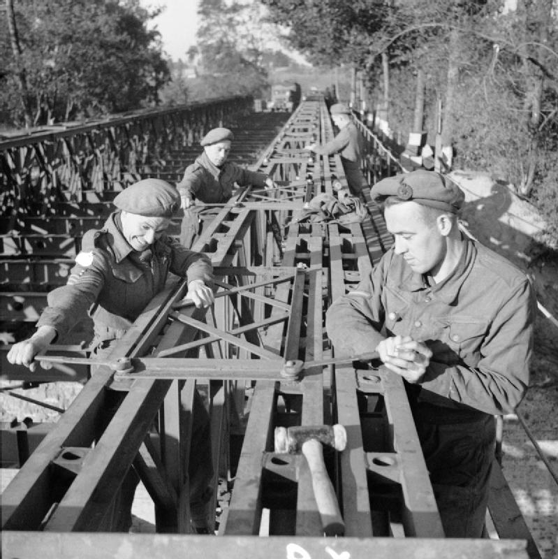 The British Army in North-west Europe 1944-45 Royal Engineers from 294th Field Company, 49th Division, constructing a Bailey bridge over the Antwerp-Turnhout Canal, 9 October 1944.